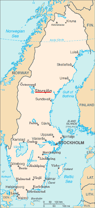 Attempt to place Storsjön in Sweden